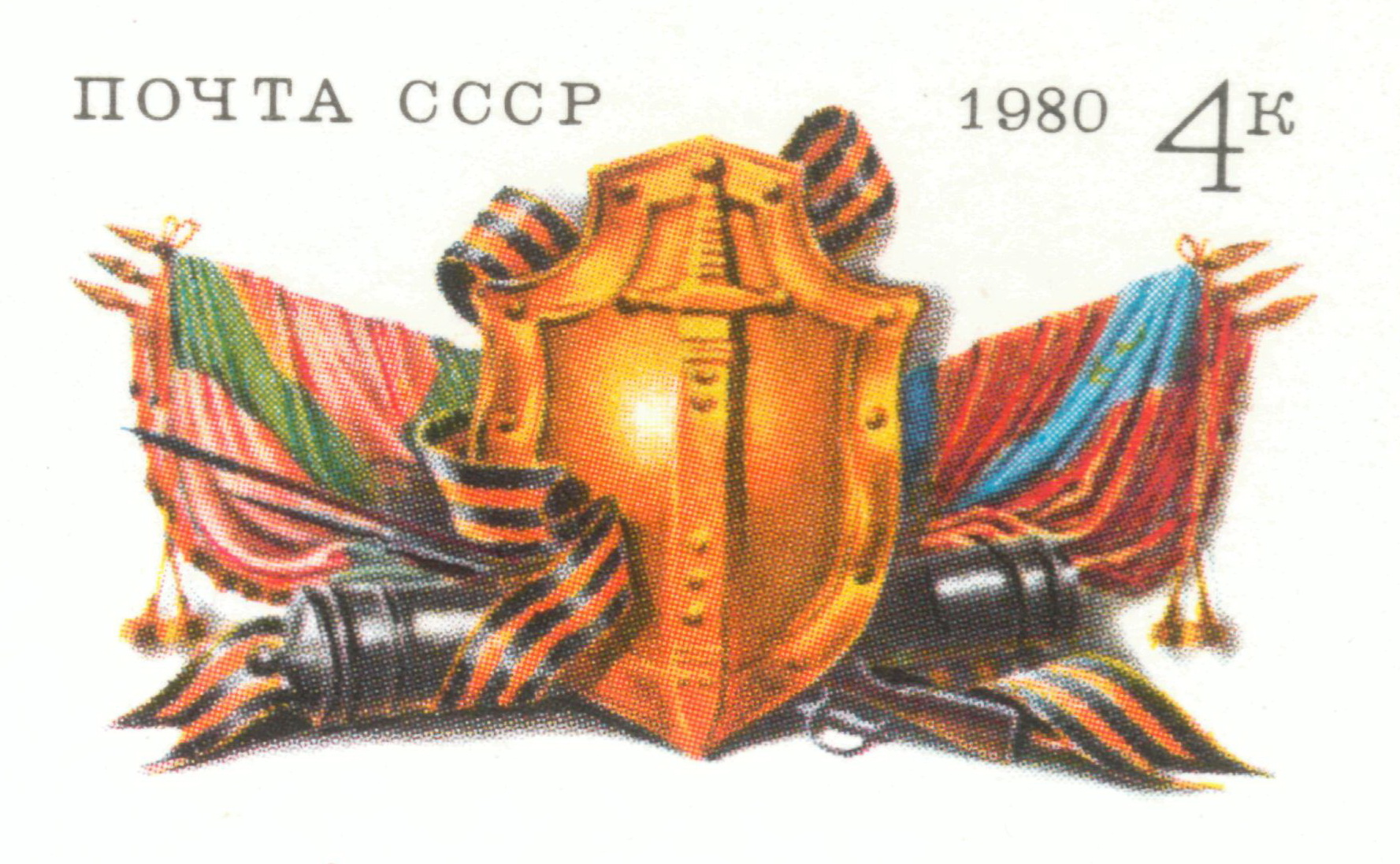 Soviet preprinted (original) stamp of 4 kopecks, 1980. Alexander Suvorov. Detail of a postcard of the Soviet Union (postal stationery).